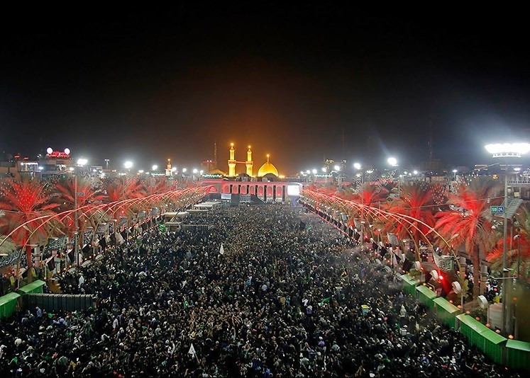 Arba'een Pilgrims in Bayn al-Harmian- November 2017